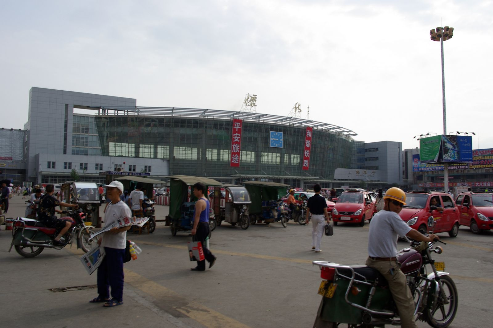 Huaihua Railway Station